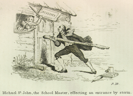 Illustration from a 1850 edition of Augustus Baldwin Longstreets Georgia Scenes